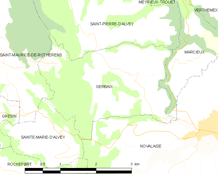 Map of French municipality